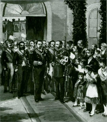 Meeting of the monarchs Alfonso XII of Spain and Luis I de Portugal at the Valencia de Alcántara Station, for the opening of direct rail line between Madrid and the Portuguese border. This illustration was originally published in the journal "La Ilustración Española e Americana", on 22nd October 1881.